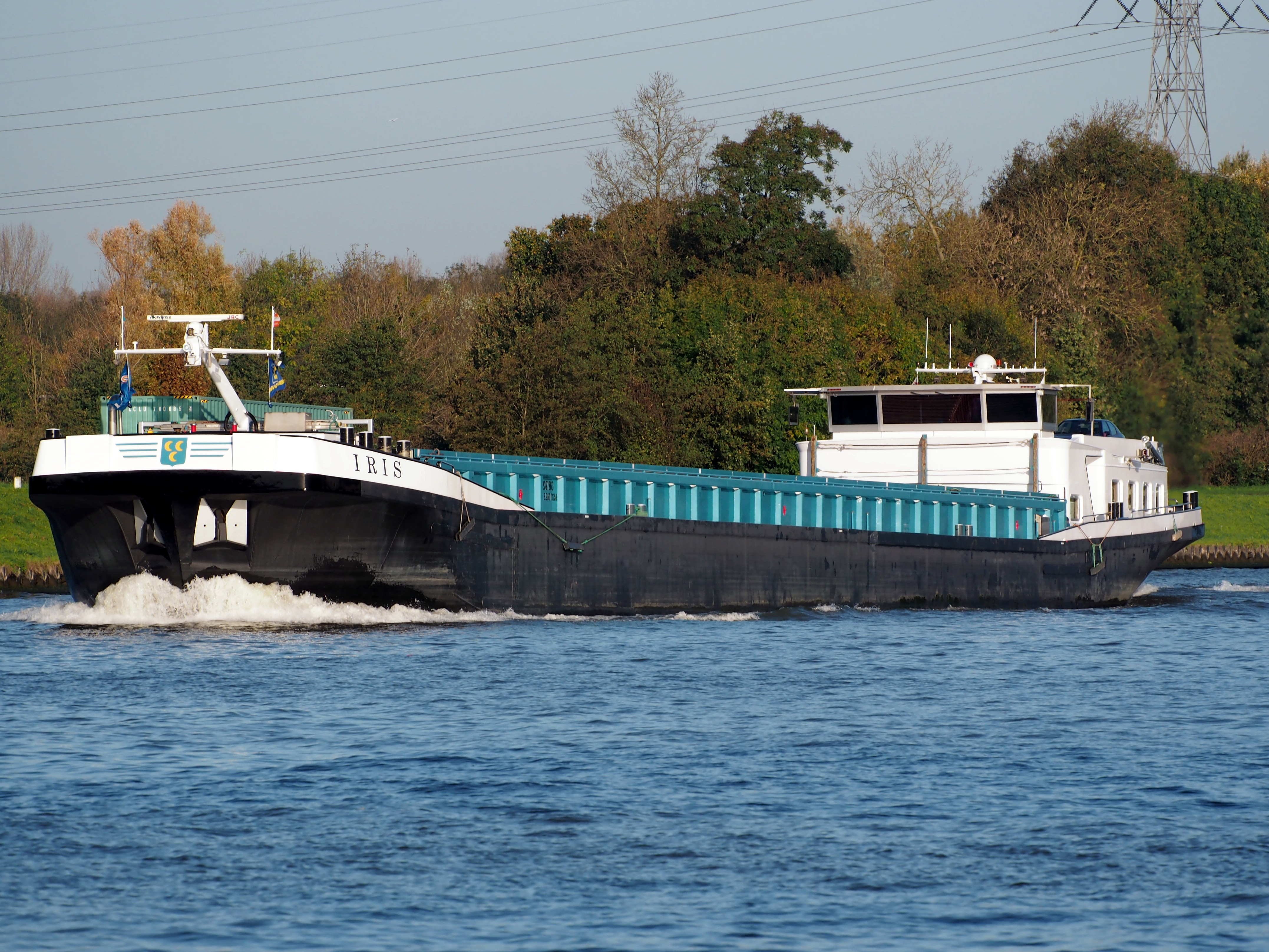 Photographed at the Amsterdam-Rhine Canal, in The Netherlands.